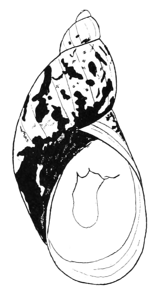 Drawing of the apertural view of the shell with live animal of Novisuccinea chittenangoensis inside. No 90081 A. N. S. P. (Academy of Natural Sciences) which is cotype of Novisuccinea chittenangoensis. Height of the shell: 23.3 mm, width of the shell: 11.3, height of the aperture: 14 mm.